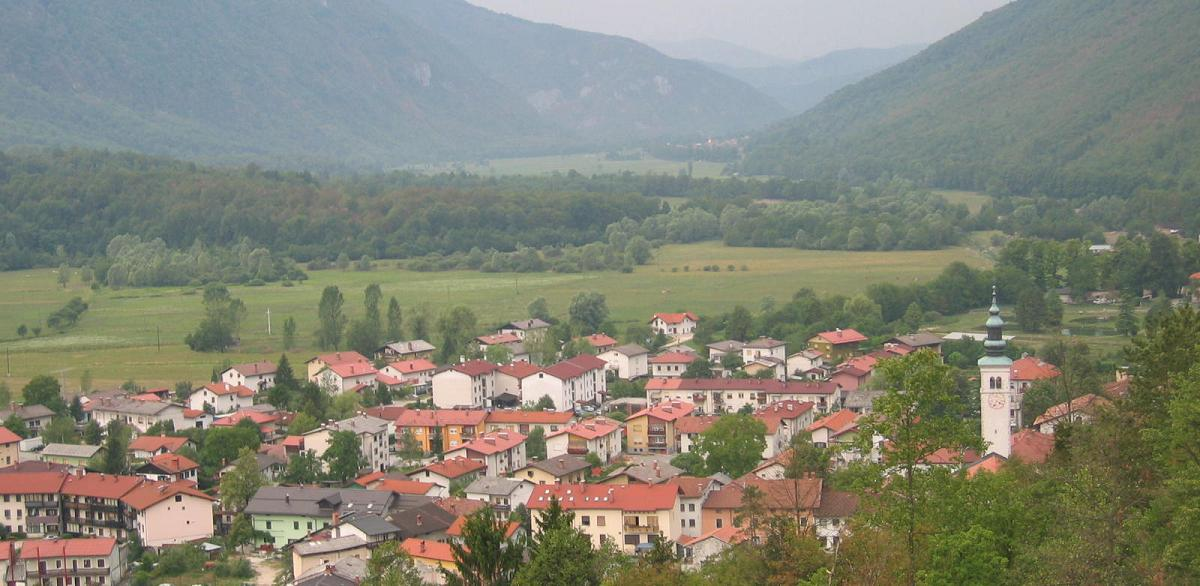 Kobarid, town in Slovenia photo:Ziga 06:16, 7 November 2006 (UTC)